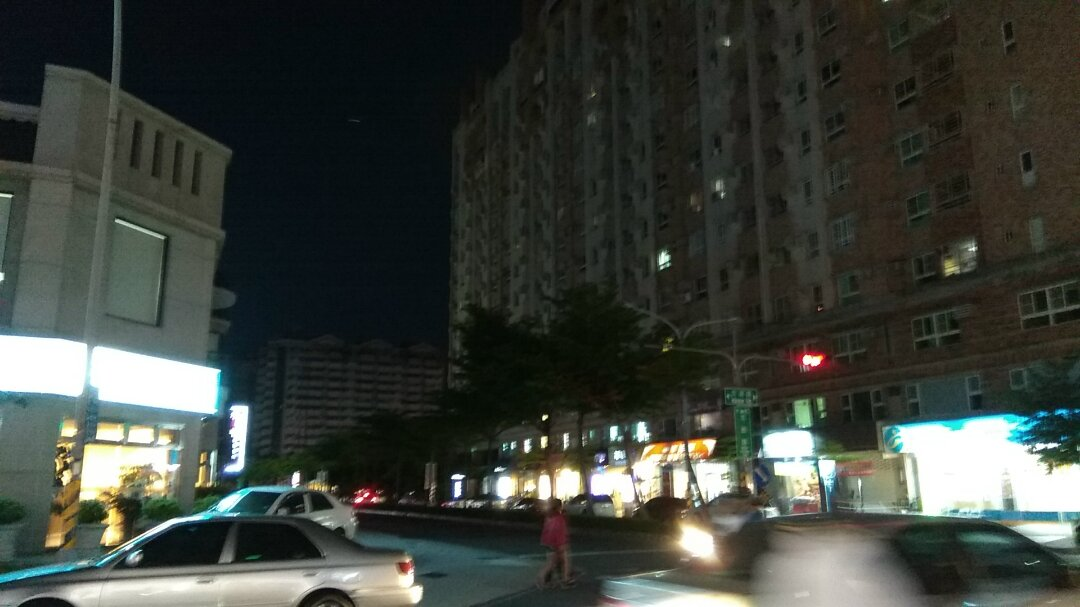 815 unexpected power outage in Wenshan Consolidation Area, Kaohsiung City.